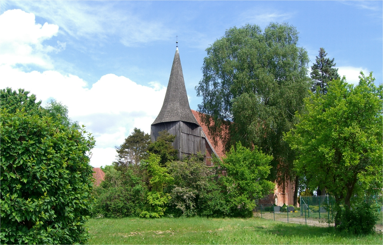 Church in Kuppentin, Germany